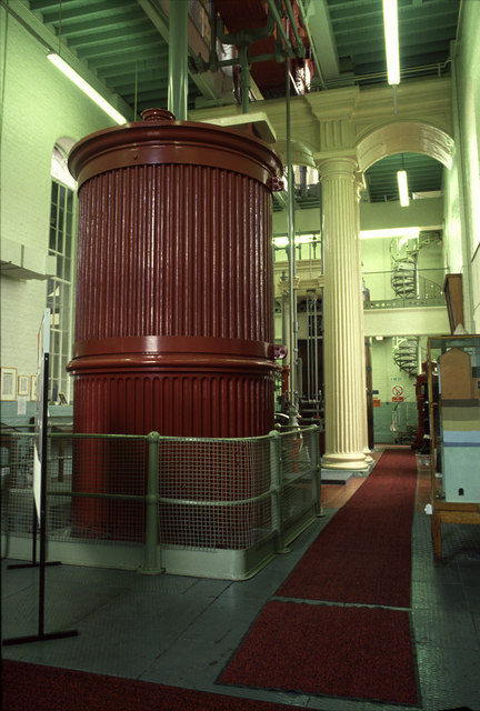 Cornish beam engine, Springhead The large corrugated drum is the balance weight. This incorporates a water tank so that the weight can be varied for pumping to different heads.